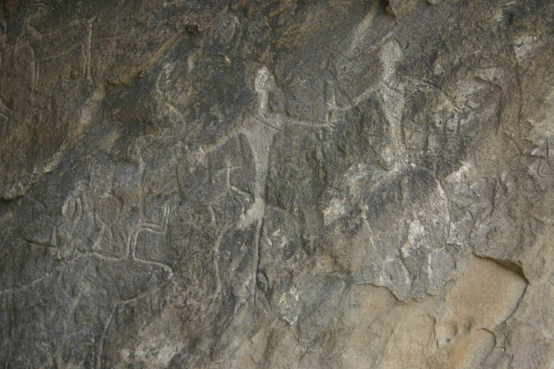 Rock carvings near Qobustan, Azerbaijan